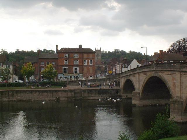 Bewdley bridge and Severn Side South, looking south-west up Load Street from the east bank of the River Severn.